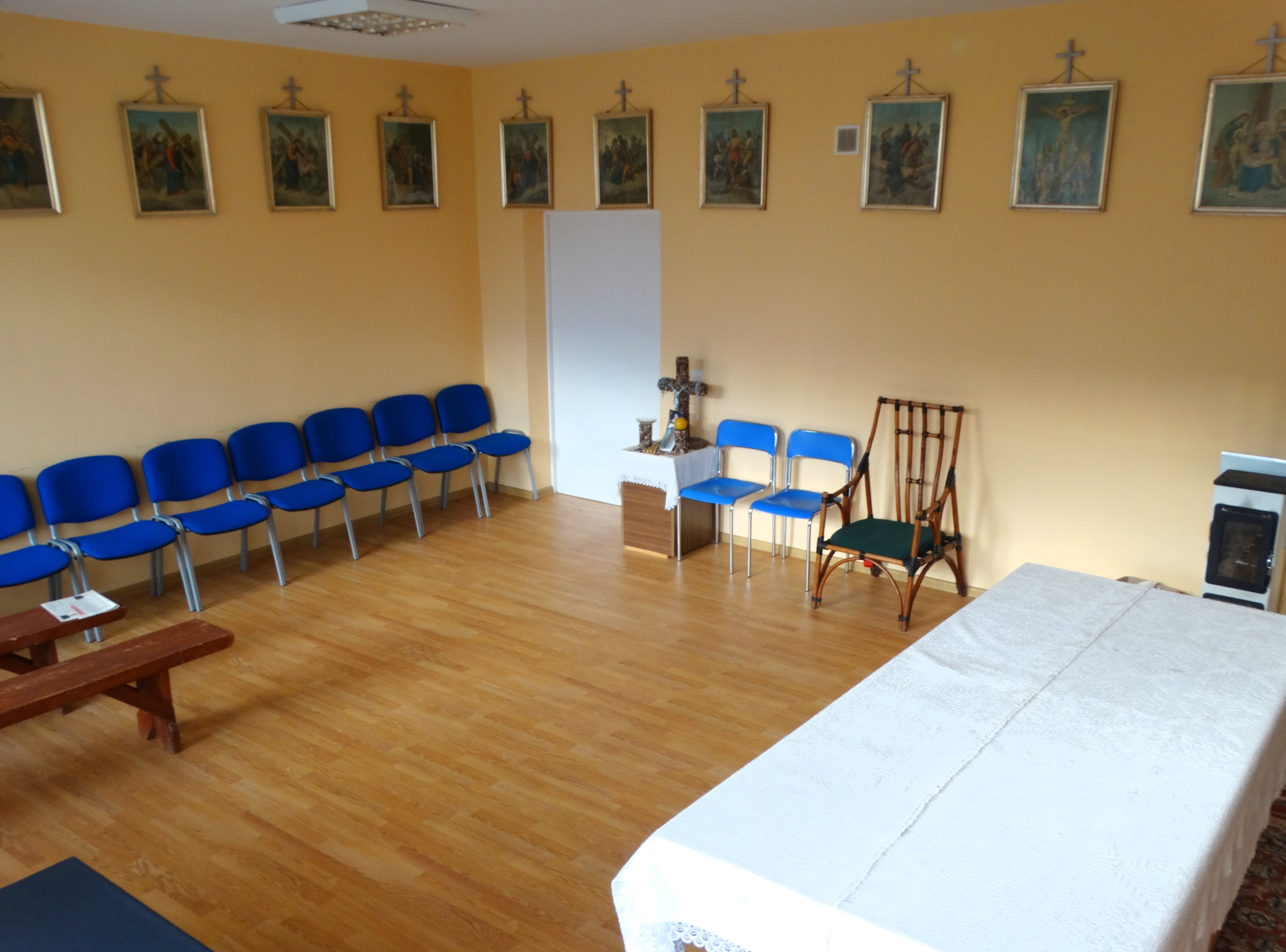 Chapel interior, Dainava (Kaišiadorys), Lithuania